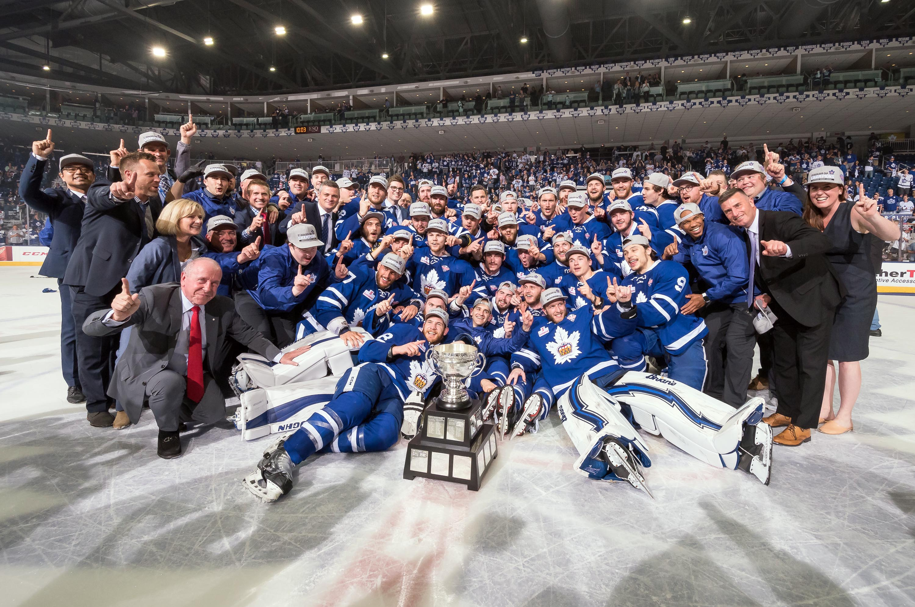 Photo: Christian Bonin